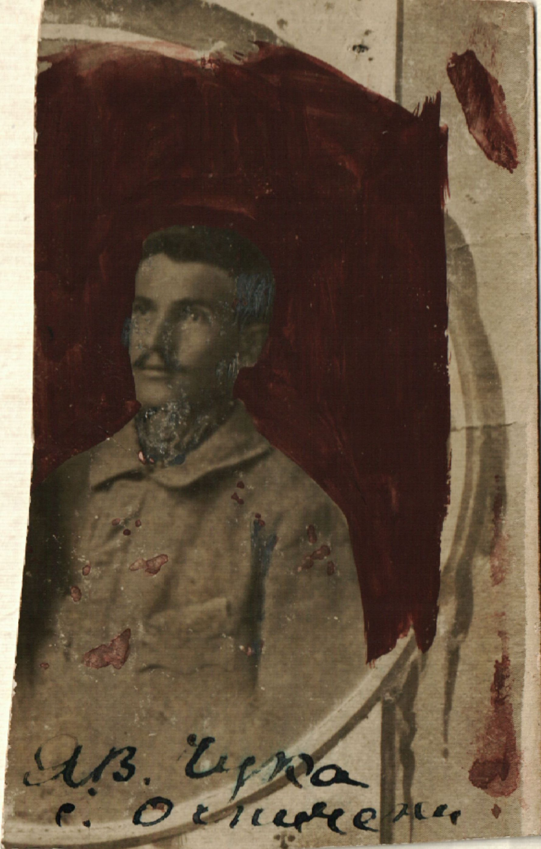 Yanko Vasilev Chuka